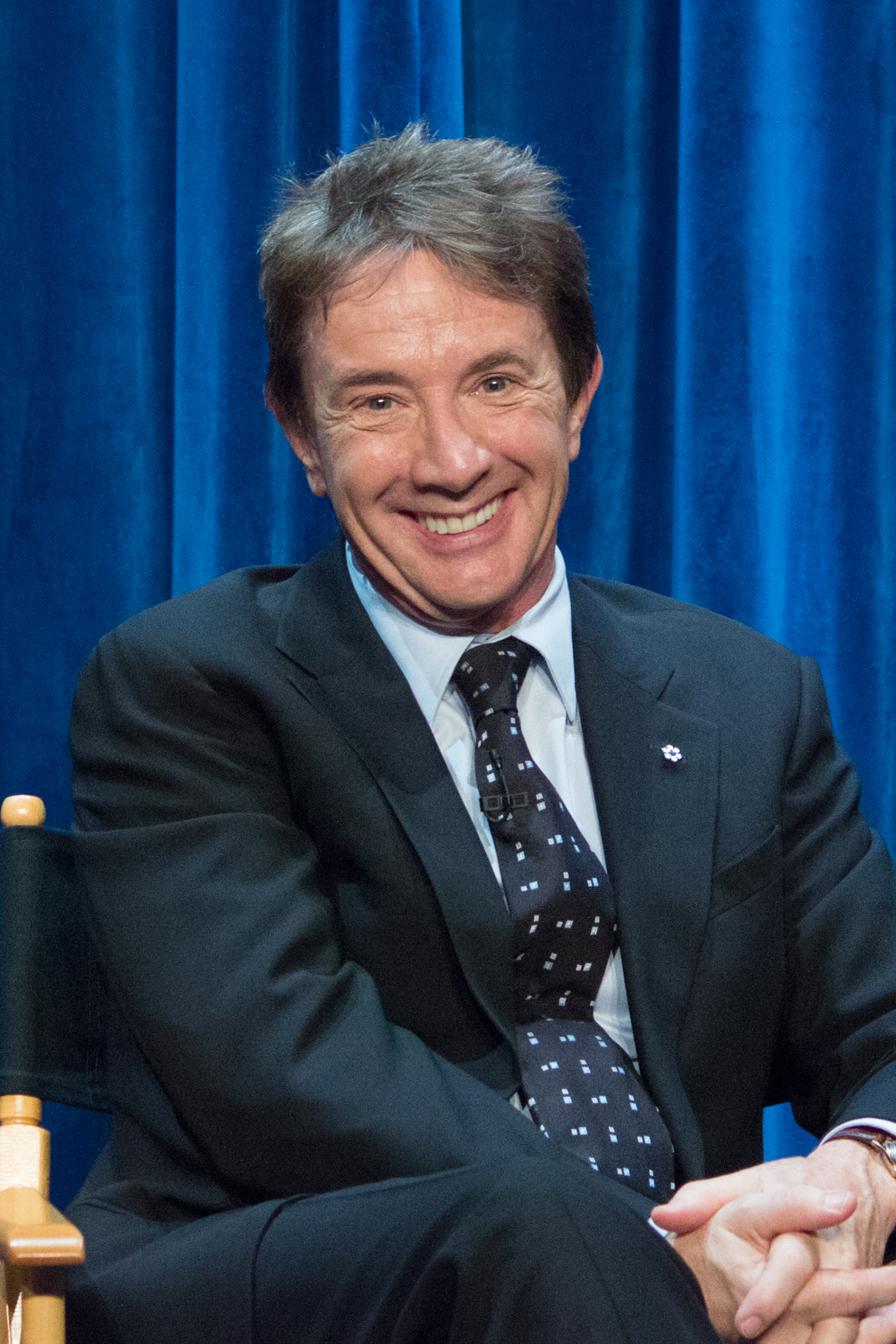 Actor Martin Short at PaleyFest Fall TV Previews 2014 for the TV show "Mulaney"